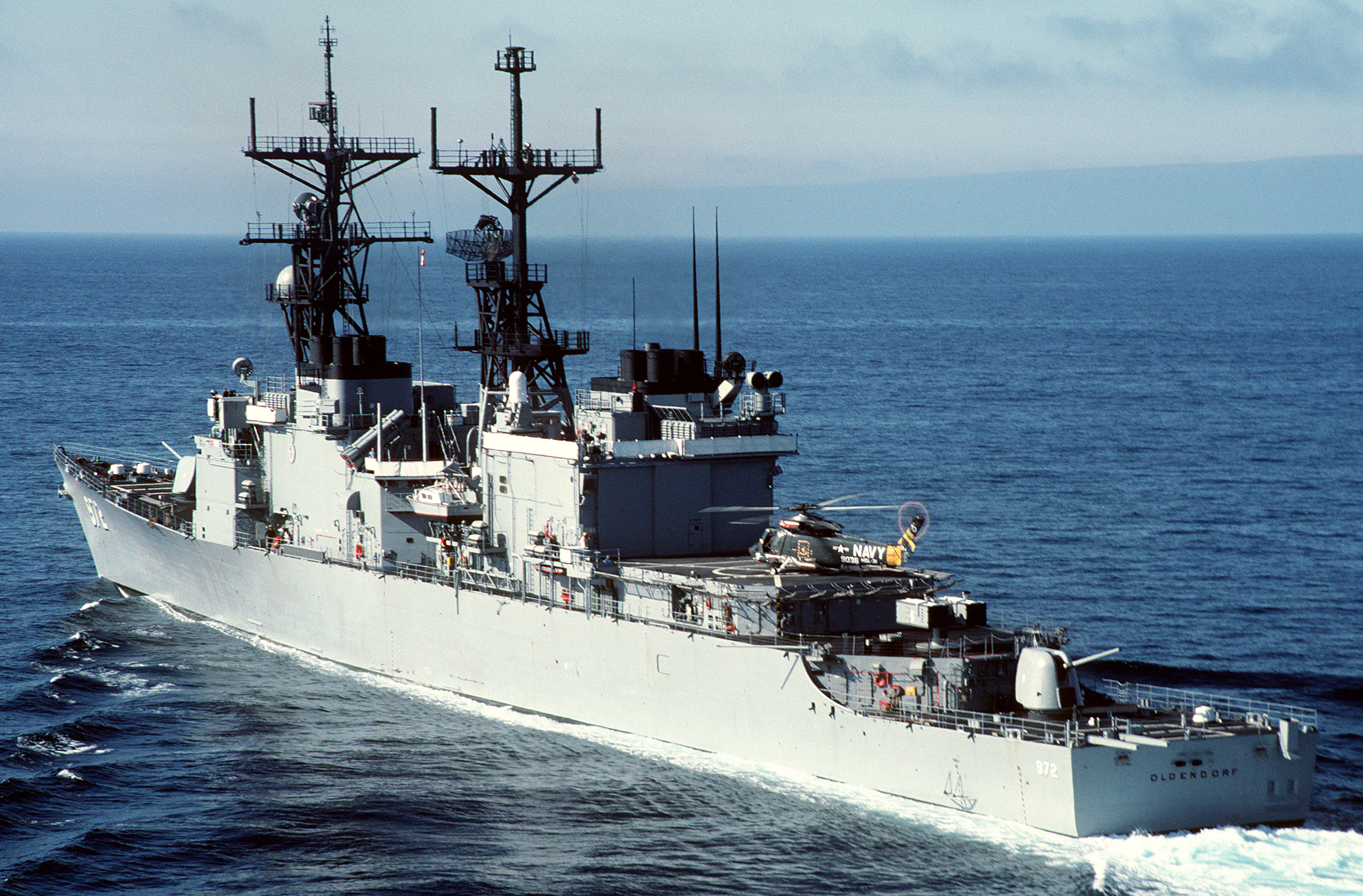 A port quarter view of the Spruance class destroyer USS OLDENDORF (DD-972) underway off the coast of San Diego, California. An SH-2F Light Airborne Multi-Purpose System (LAMPS) helicopter is on the ship's flight deck.